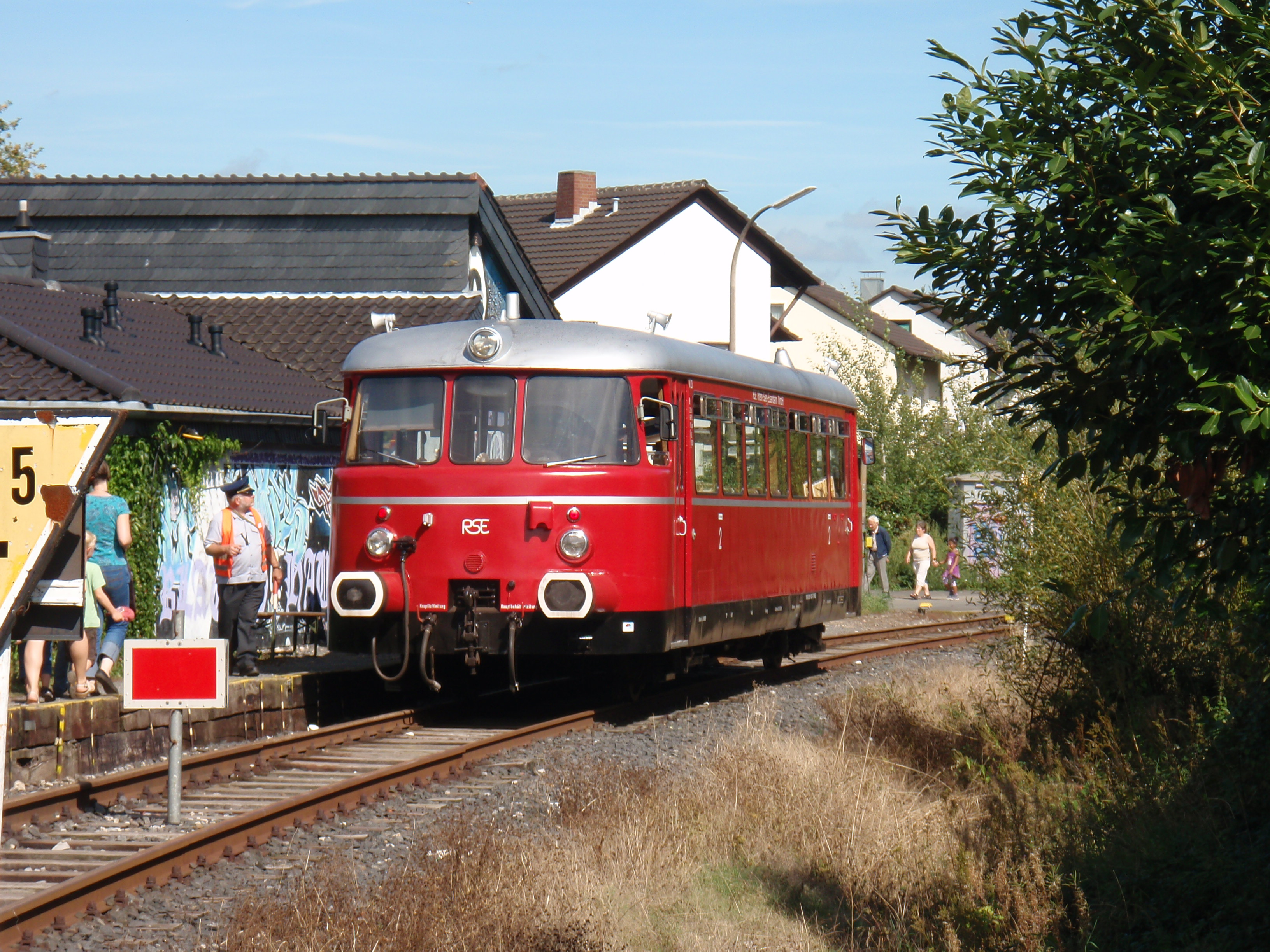 Railbus in flag stop Pützchens Markt, Bonn-Beuel, Germany.